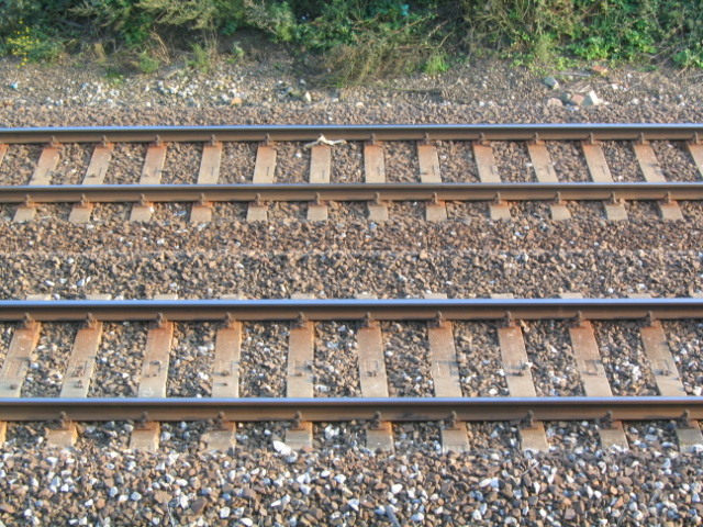 Rail track